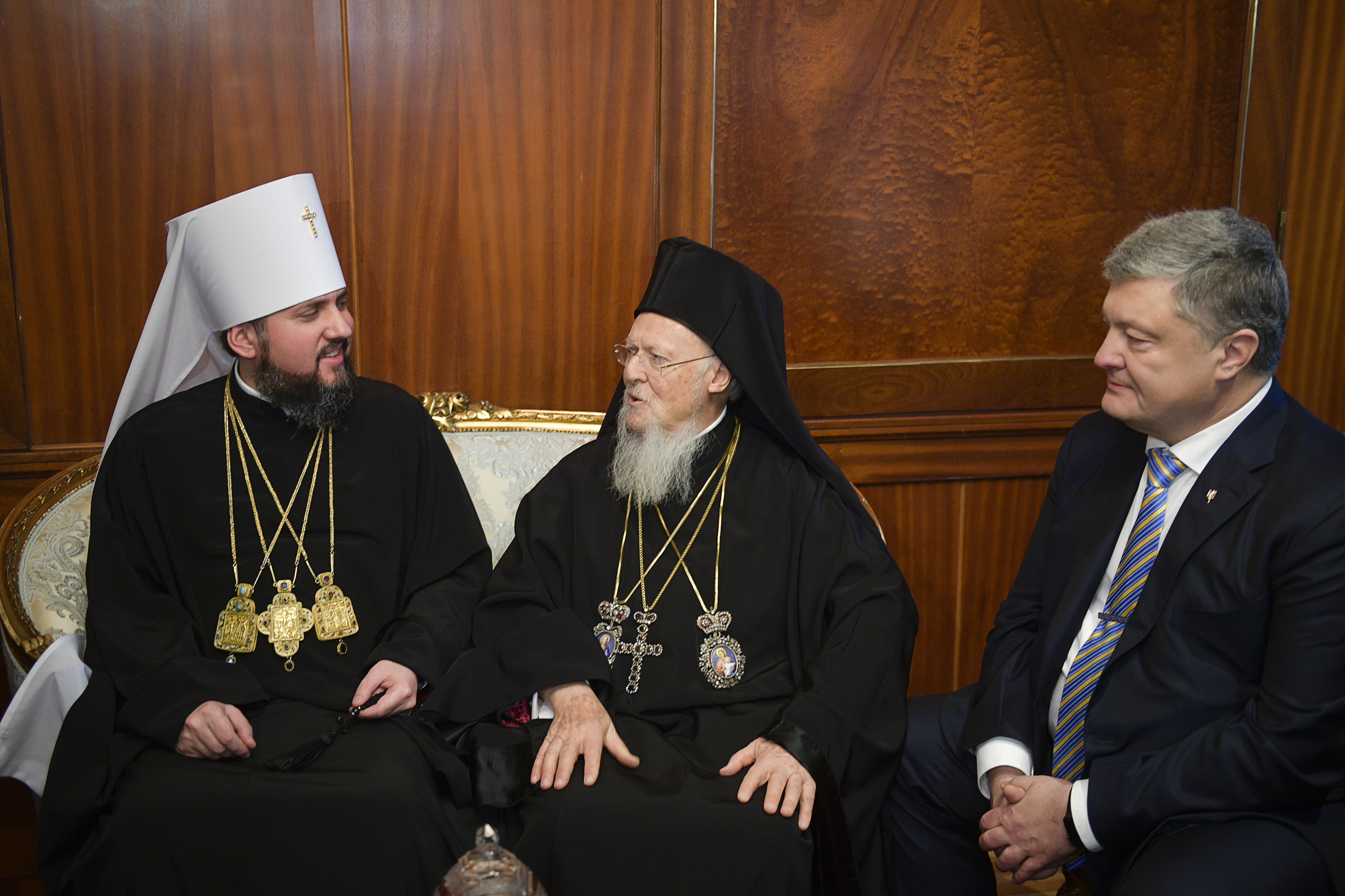 Working visit of the President of Ukraine Petro Poroshenko to the Turkish Republic (2019-01-05)